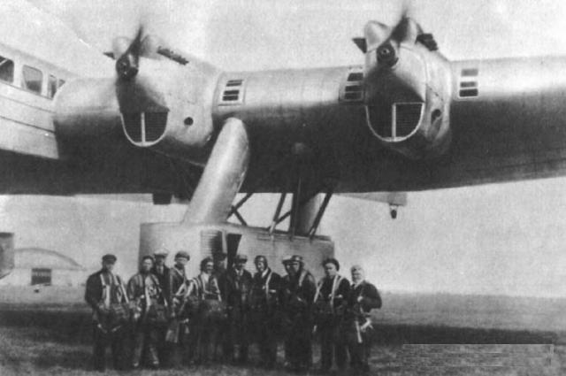 Crew before boarding to a testflight, Airport of Charkov, 1933